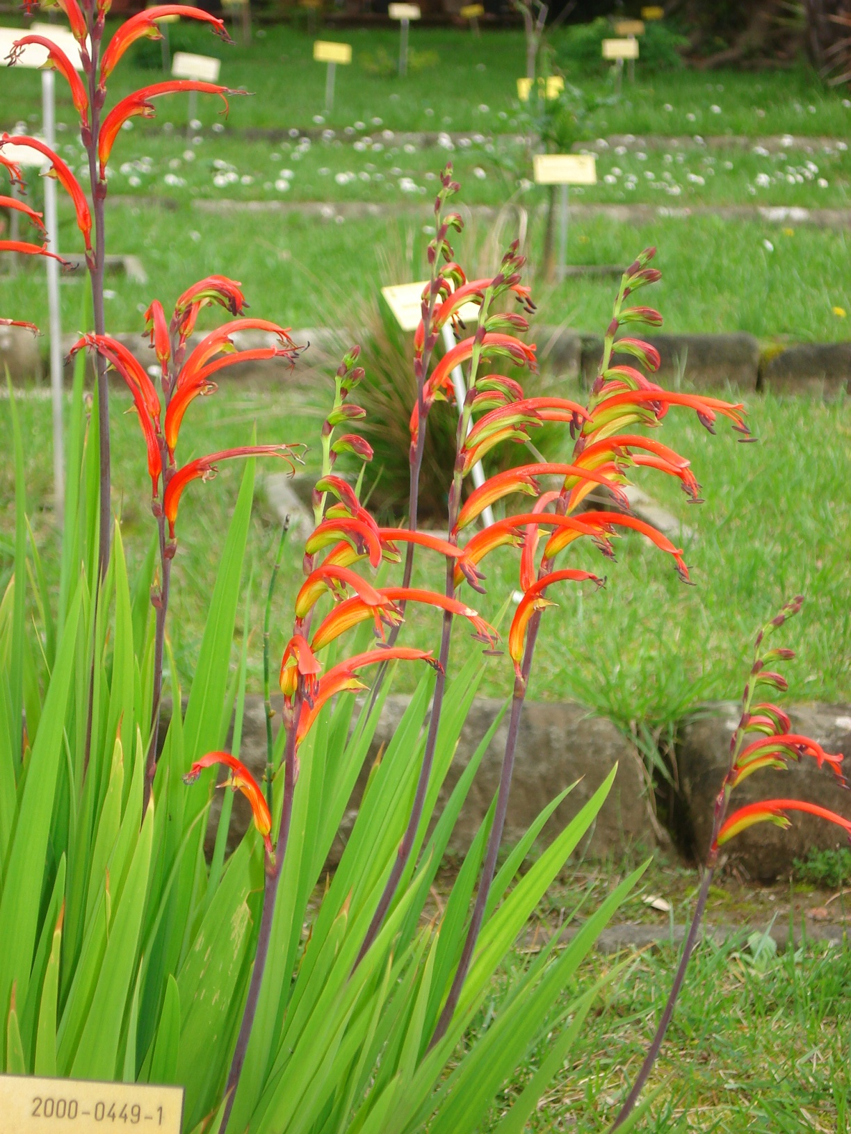 Flowers of Antholyza aethiopica, present in Pisa Botanical Garden